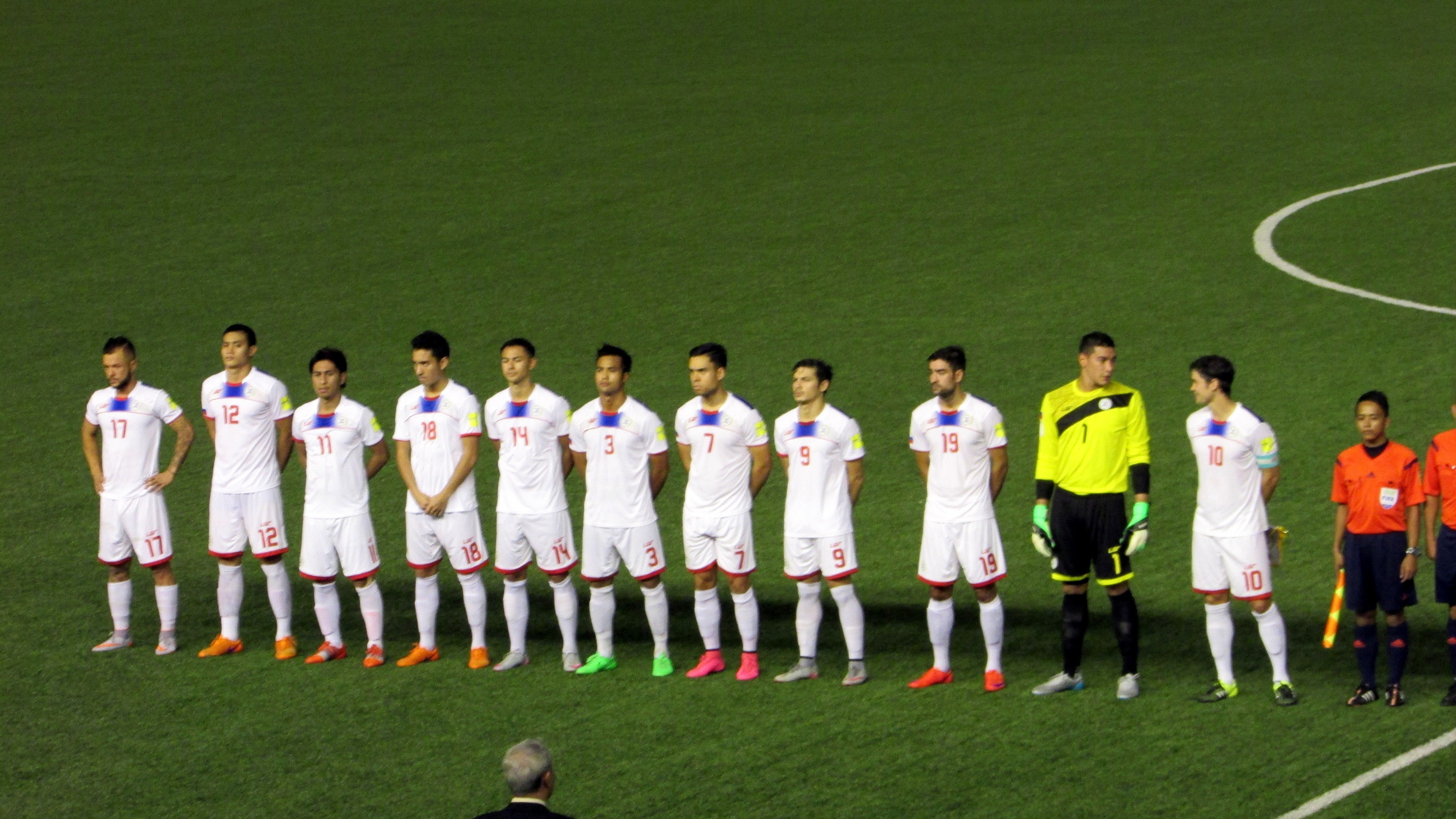 The Azkals' Starting XI against Maldives. From left to right: 17-Stephan Schrock, 12-Stephan Palla, 11-Daisuke Sato, 18-Patrick Reichelt, 14-Kevin Ingreso, 3-Amani Aguinaldo, 7-Iain Ramsay, 9-Misagh Bahadoran, 19-Jerry Lucena, 1-Neil Etheridge, 10-Phil Younghusband